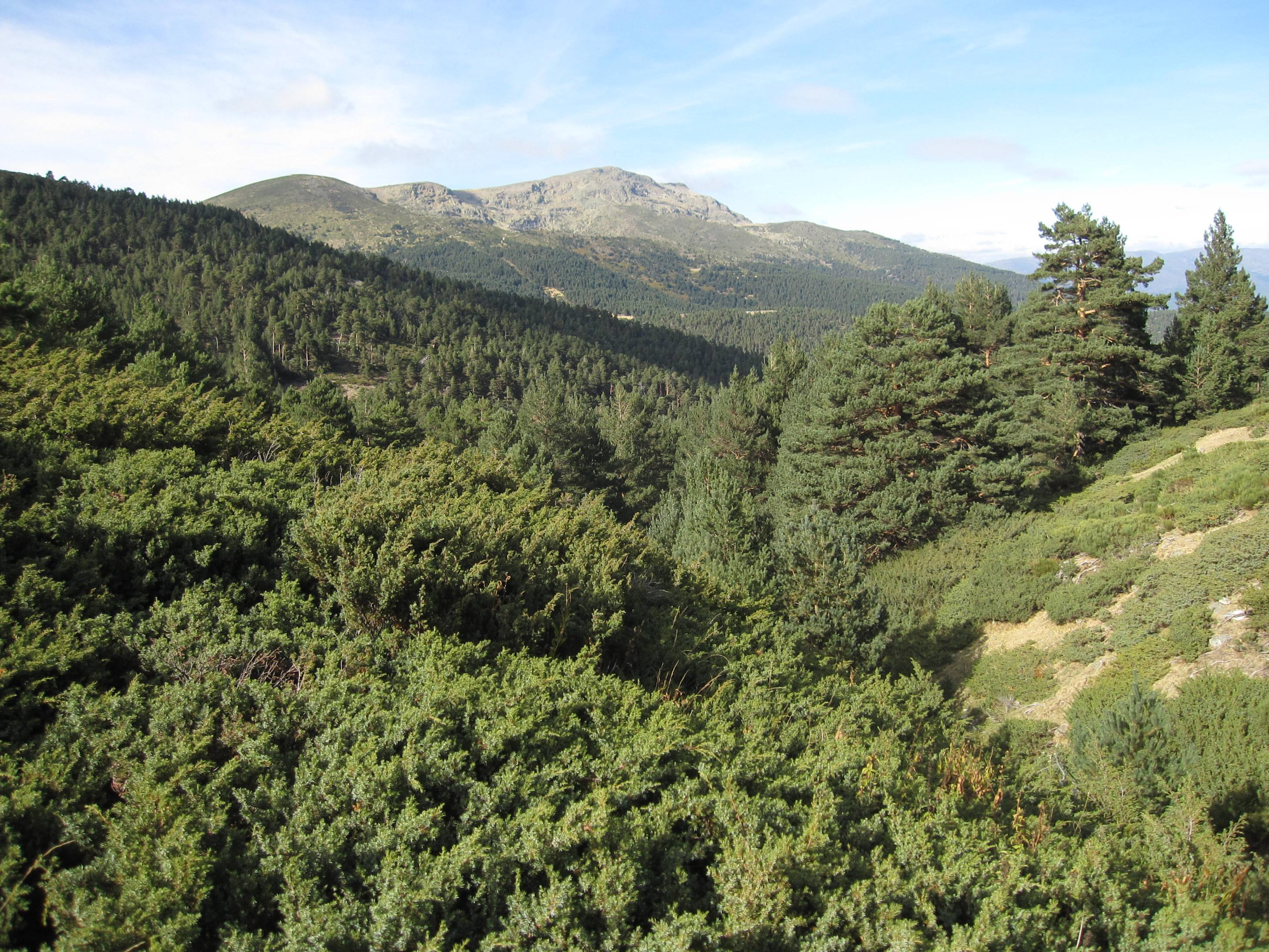 Peñalara massif seen from Cerradillas valley (Guadarrama mountain range, central Spain).